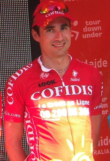 Named cyclist at the en:2009 Tour Down Under team presentation